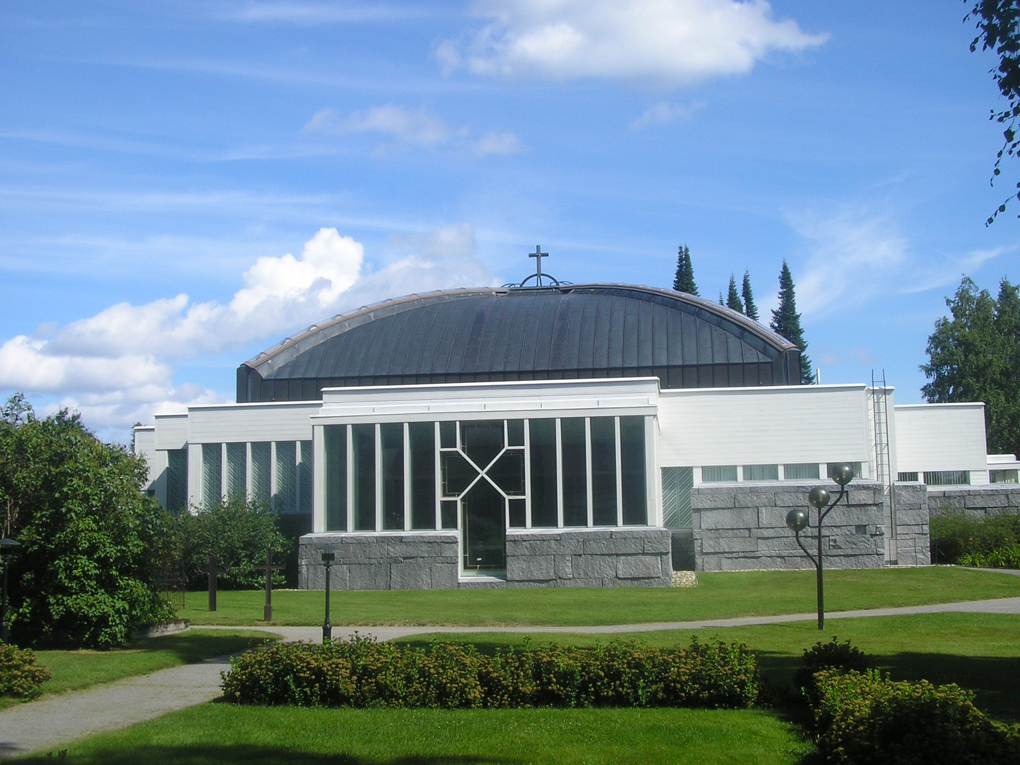 Lieksa Church in Lieksa, Finland